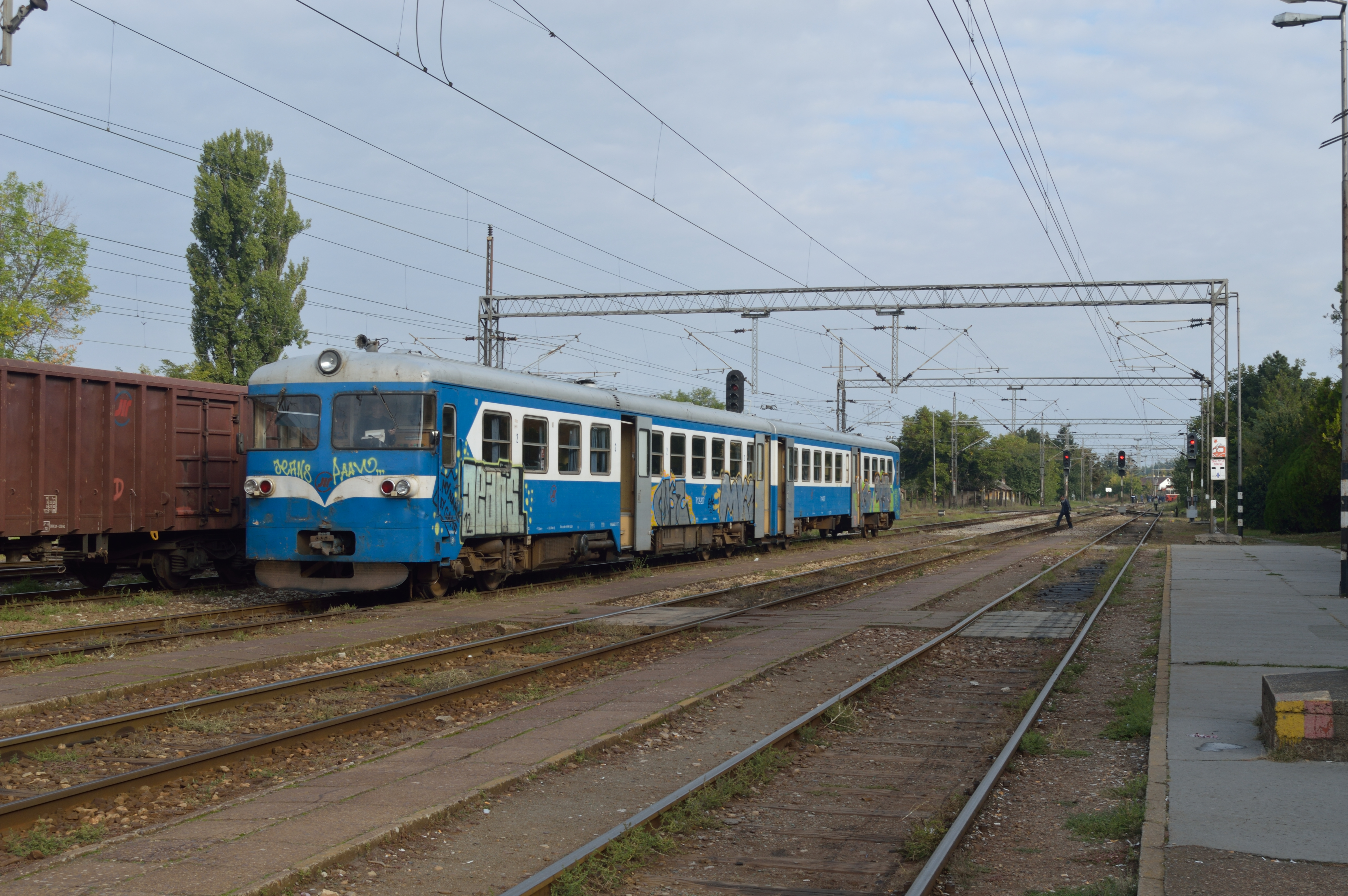 Balkans Rail Trip, Autumn 2013 - Day Three One of the last few surviving 2-car DMUs built by Djuro Djakovic (under licence of Macosa in Spain) is seen at Vrbas on 25 September 2013. Set no. 712.207 is ready to work train 6452, 09:04 Vrbas to Sombor. These units are based at a small depot at Sombor which is likely to close down with rationalisation of rolling stock and being replaced by class 711 sets. However the decision has been made to concentrate the new sets at Subotica for this area. The class 712s are in very poor condition and not looked after well - seen here with large amounts of graffiti. Internally the seats are very basic plastic moulded and are prone to frequent breakdowns.